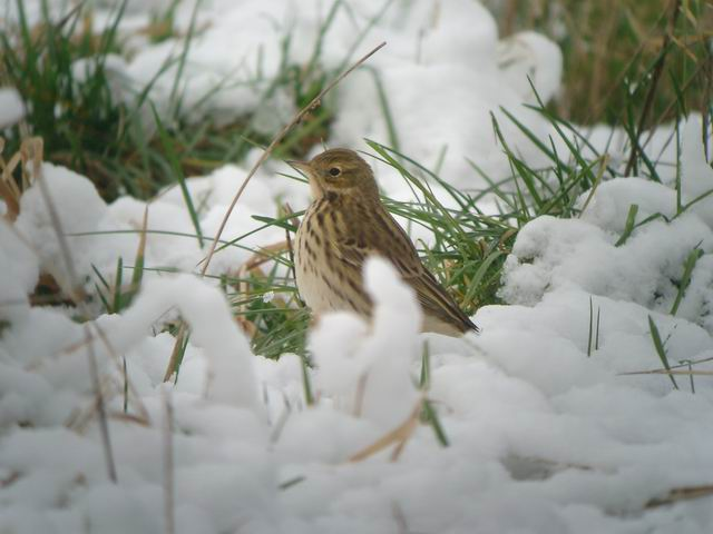 Meadow Pipit (Anthus pratensis) Regular in the farmland west of Cambridge. This is a very adaptable species breeding from lowland farmland to some of the highest Scottish mountain tops but birds move to lower levels and more southerly locations for winter. Still able to cope with fairly tough conditions though.